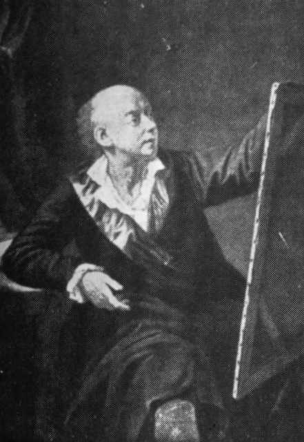 Count Friedrich Moritz von Brabeck (1742-1814) in Söder Castle (Hildesheim, Germany)